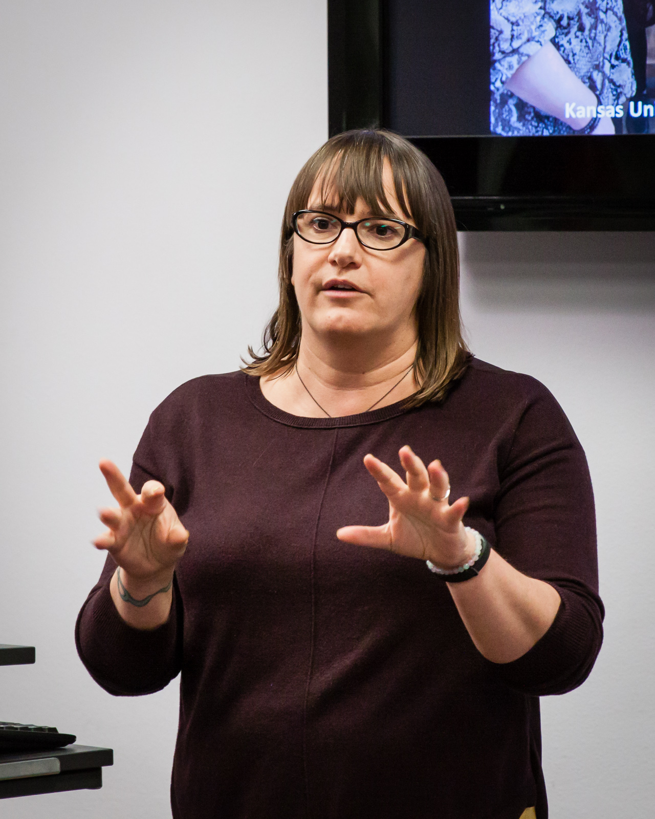 'Performance and the Archive' Talk with Jacqueline Wernimont Winners of English's Homecoming Writing Awards read from their work. Poetry – Jordan Mychal Dahlen, "Optimist Goblin" Scholarly Essay – Ashley Barnard, "Missing Letters: John Updike’s "S." and Bharati Mukherjee’s "Holder of the World" as Counterwritings of "The Scarlet Letter"" Short Story/Creative Nonfiction - Delaney Kranz, "YOUR STICKY PLASTIC SEAT" 'Performance and the Archive' Talk with Jacqueline Wernimont Working with a variety of theories of performance and textual performativity, literature and digital humanities scholar Jacqueline Wernimont will present a set of archival performances that draw on literary texts, textual archives, and multimedia tools. Wernimont is a founding co-Director of the HS Collab and an Assistant Professor of English at ASU, where she specializes in literary history, feminist digital media, histories of quantification, and technologies of commemoration. She directs ASU's Graduate Certificate program in Digital Humanities and is currently a Fellow of the Lincoln Center for Applied Ethics, where she works on new civil rights in digital cultures. She is an active part of the FemTechNet collective. Wernimont is at work on a monograph that traces long histories (21st century to 16th century) of technologies like wearable devices, body measurements, and body counts. She earned a PhD and MA in English Literature from Brown University and a BA in English from the University of Iowa, where she also studied molecular biology. Wernimont says of her beginnings, "I cut my digital humanities teeth at the Brown University Women Writers Project, where I began as an encoder and later worked as the project manager and textbase editor." In addition to ASU, Wernimont has taught at Harvey Mudd College and Scripps College. Wed., Oct. 19, 2016 ASU, Tempe campus